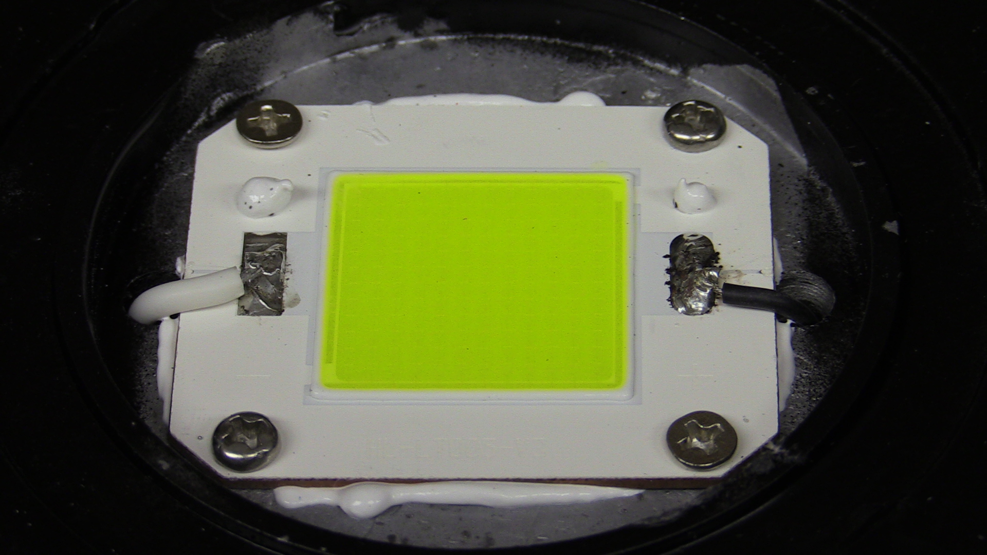 A Chip-On-Board COB LED Module from an industrial light luminaire, thermally bonded to the heatsink